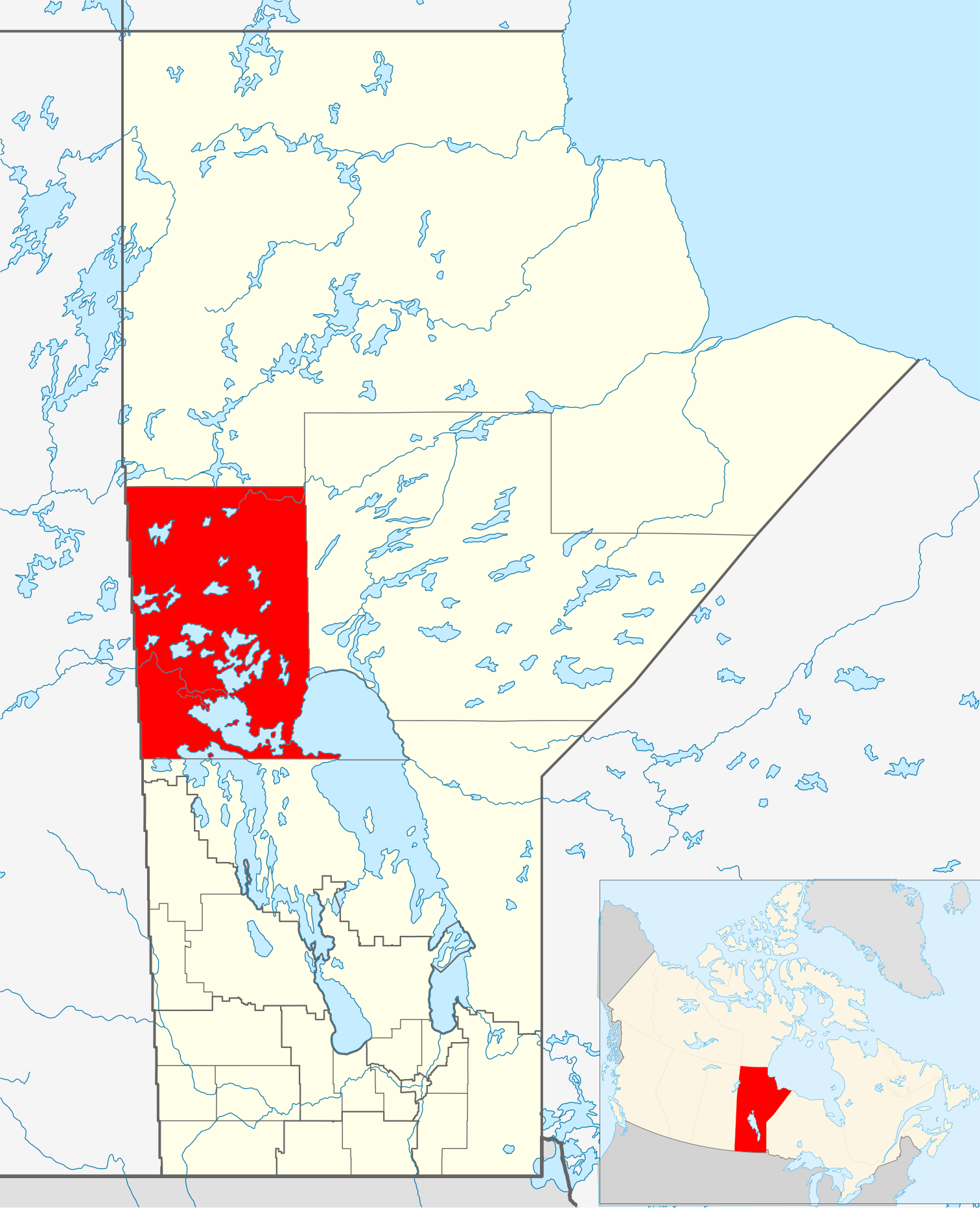 Division No. 21, Manitoba.